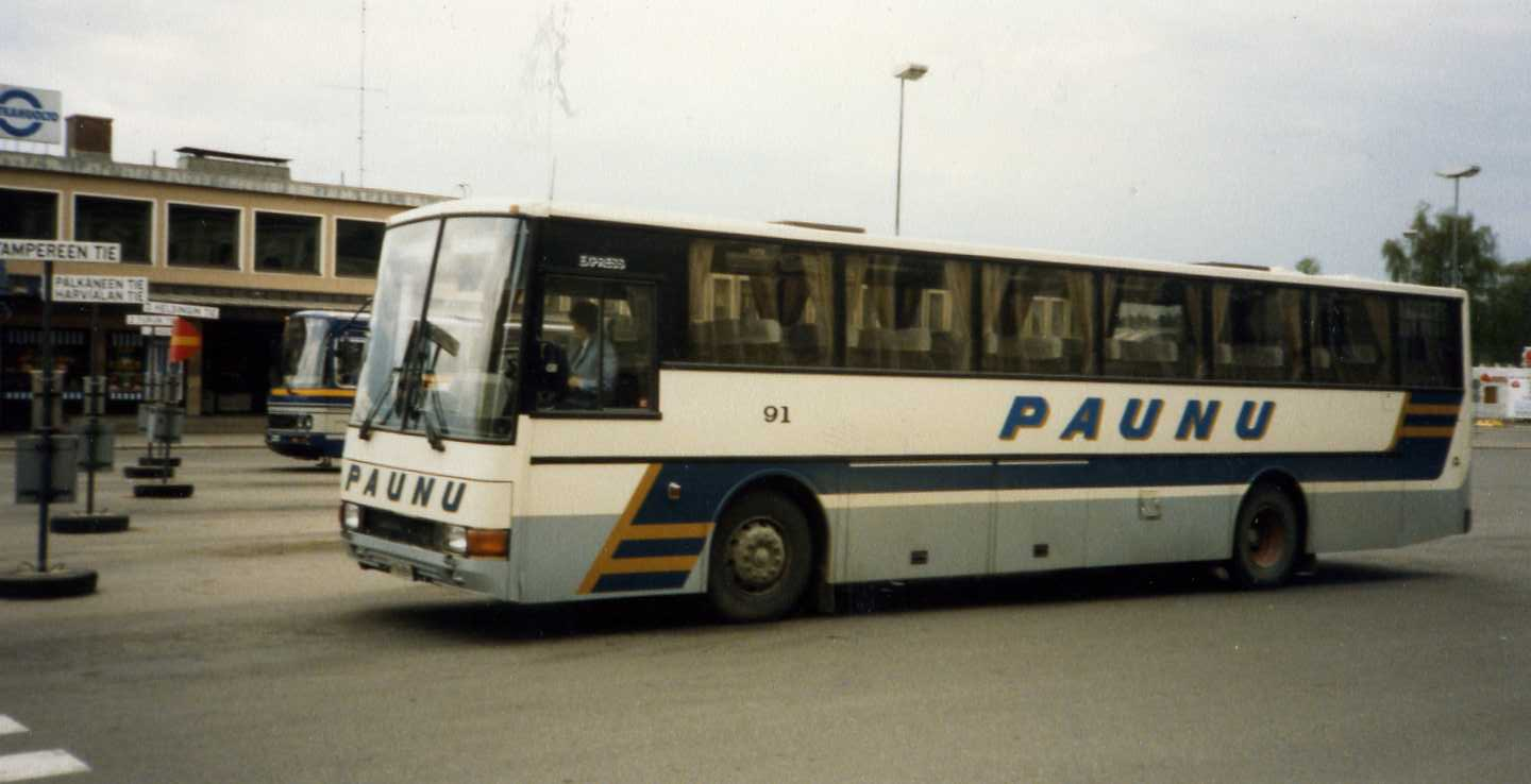 Volvo B58/Ajokki Express bus (#91) of Paunu in Hämeenlinna(?), Finland.